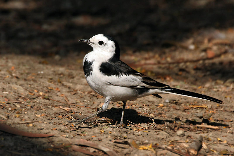 White Wagtail Motacilla alba in Kolkata, West Bengal, India.